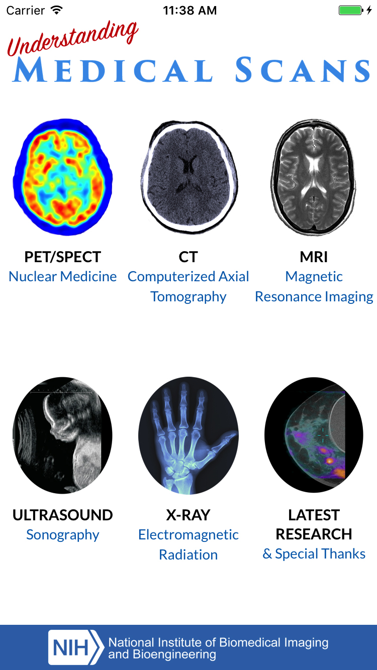 Screengrab from Understanding Med Scans Mobile App